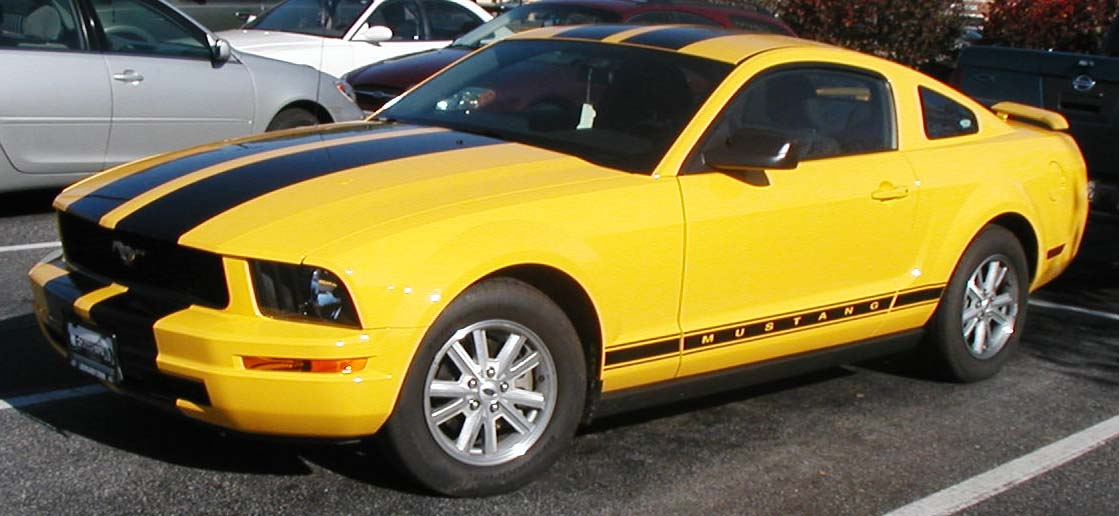 2005-2007 Ford Mustang photographed in USA.